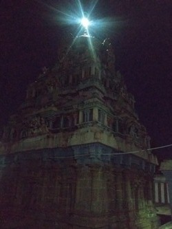 Vimana of the presiding deity, Tirupayatrunathar Temple, Tirupayatthangudi, Nannilam Taluk, Tiruvarur District, Tamil Nadu, India